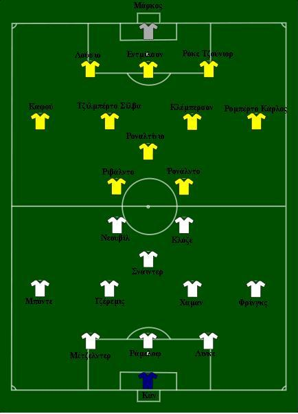 Line-up Brzail-Germany (WC 2002 final)